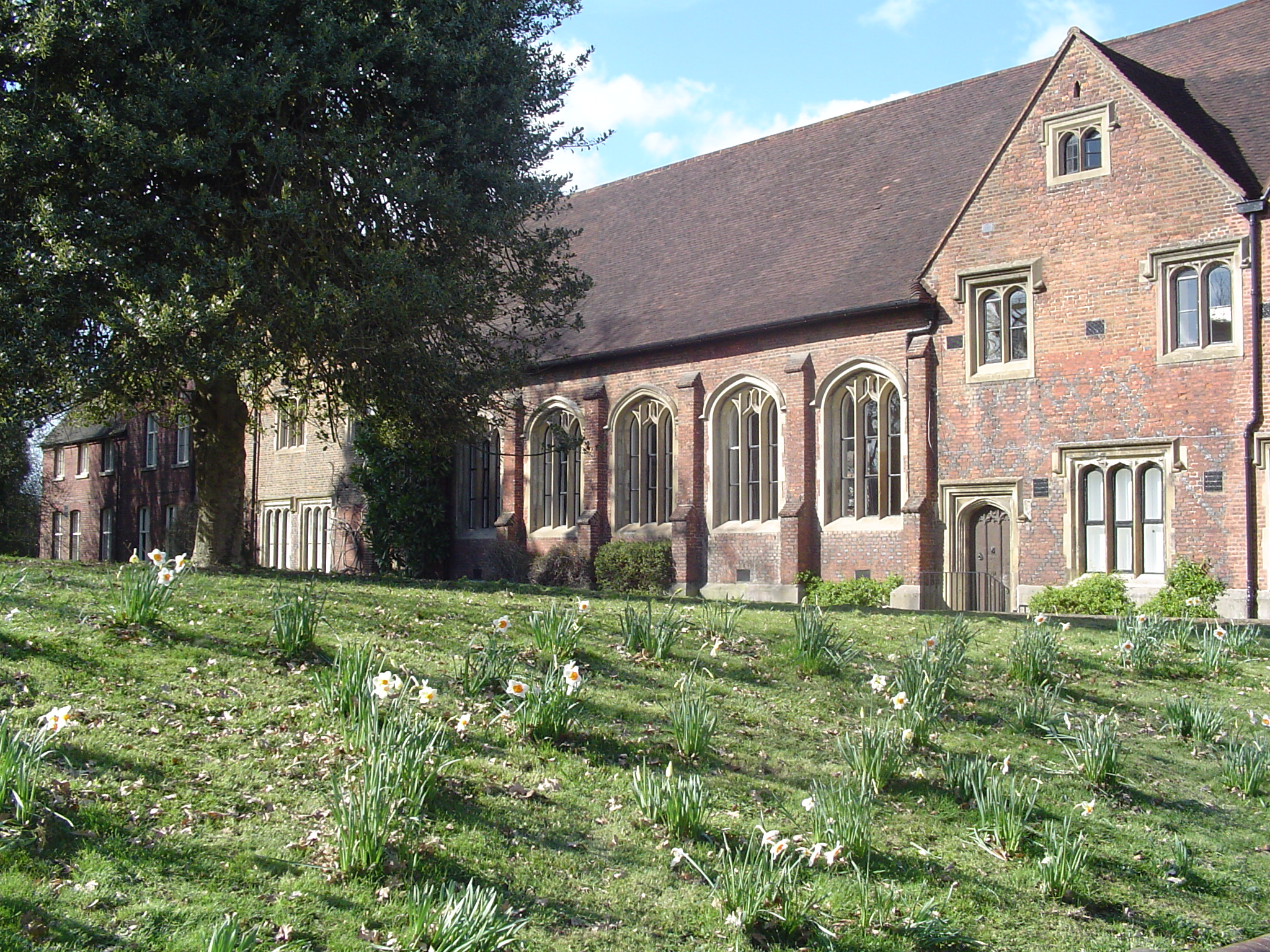 A view of 'Old Hall', built in the mid-16th Century and now part of Berkhamsted Collegiate School.